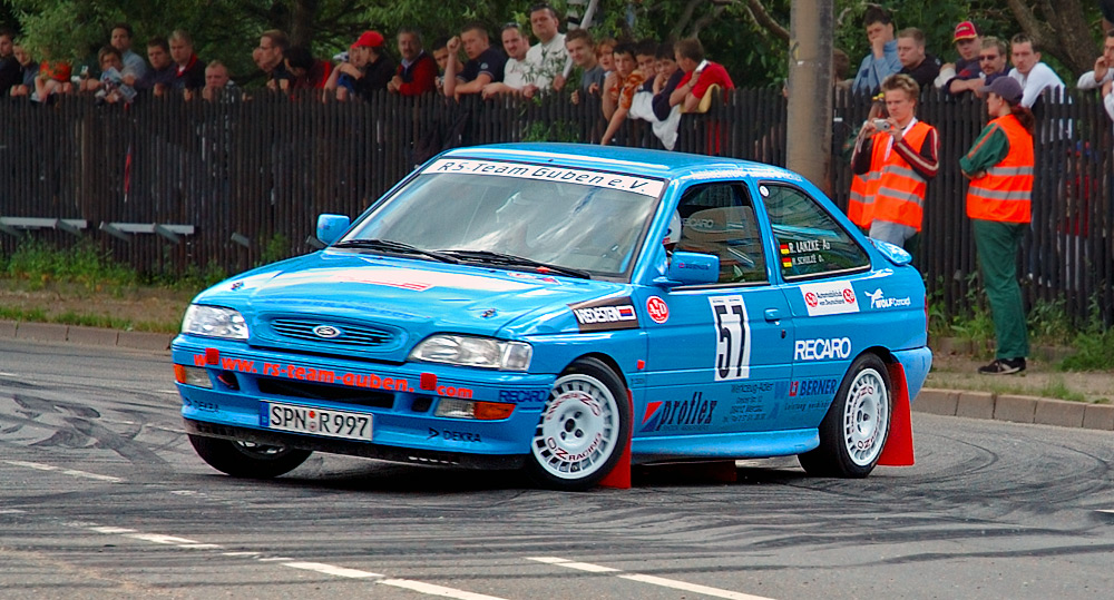 This image shows a Ford Escort RS 2000. The driver is Roland Lanzke, the co-driver is Hubertus Schulze. This photo has been taken during the Saxony rally racing 2005 in Zwickau (Germany).